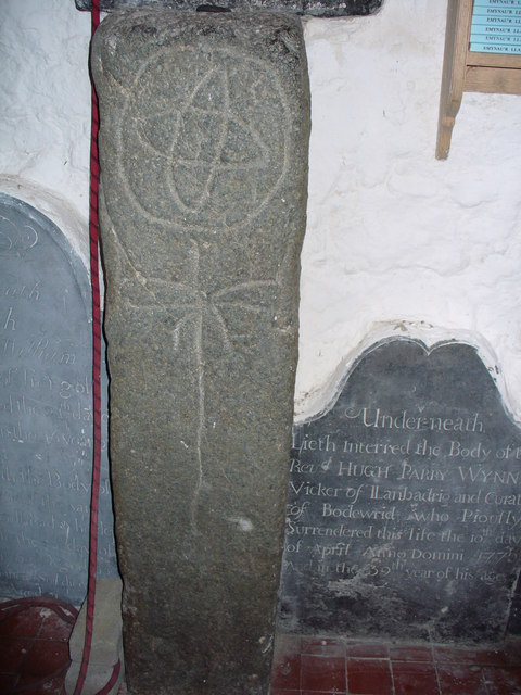 The Icthus Stone. The Icthus Stone, discovered inside St Patrick's Church during the 1884 restoration depicts the early Christian symbols of the fish and the palm tree. These symbols are believed to have been carved between the 7th and 11th century. 530698